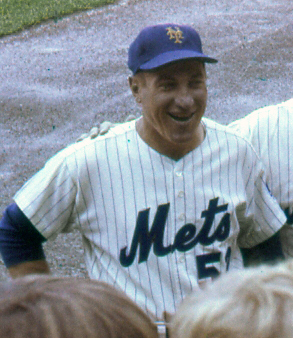 New York Mets coach Joe Pignatano at camera day 1969, Shea Stadium.